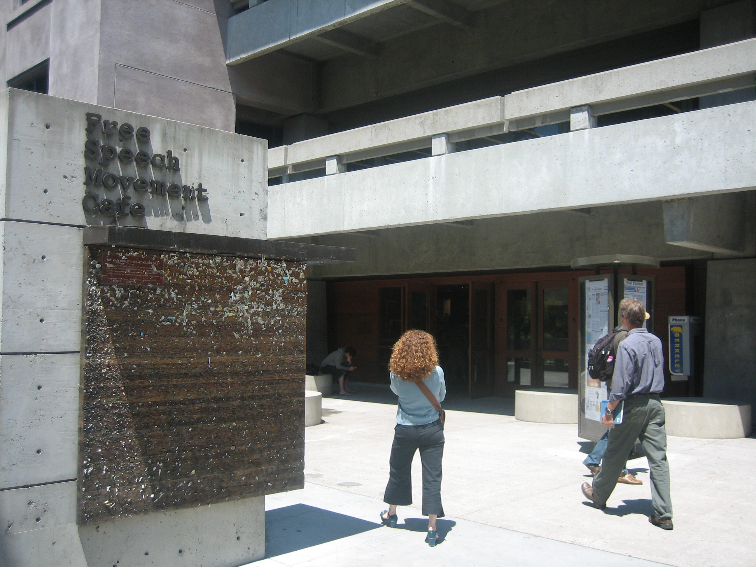 The Free Speech Cafe in Moffitt Library at the University of California, Berkeley